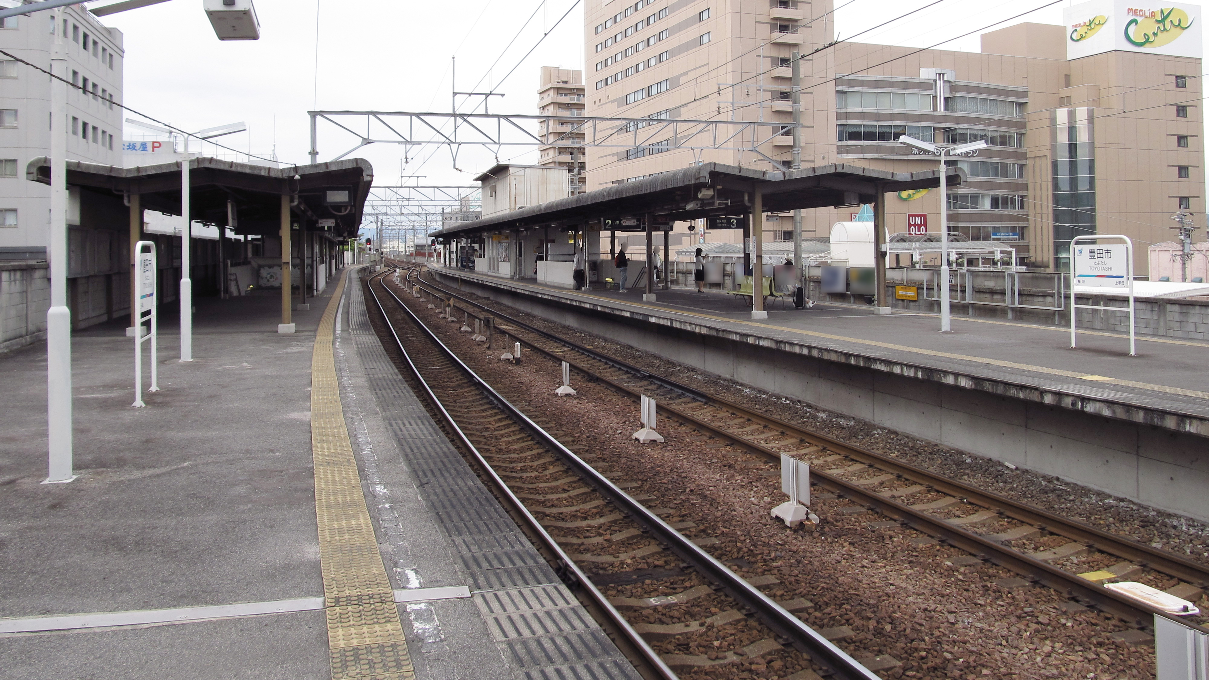 The platforms at Toyotashi Station on the Nagoya Railroad Mikawa Line in the Toyota city, Aichi prefecture, Japan